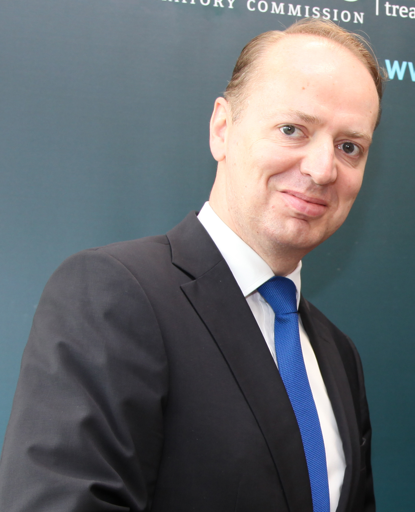 H.E. Mr Andrej Benedejčič (SLOVENIA) presents his credentials to the CTBTO Executive Secretary Lassina Zerbo